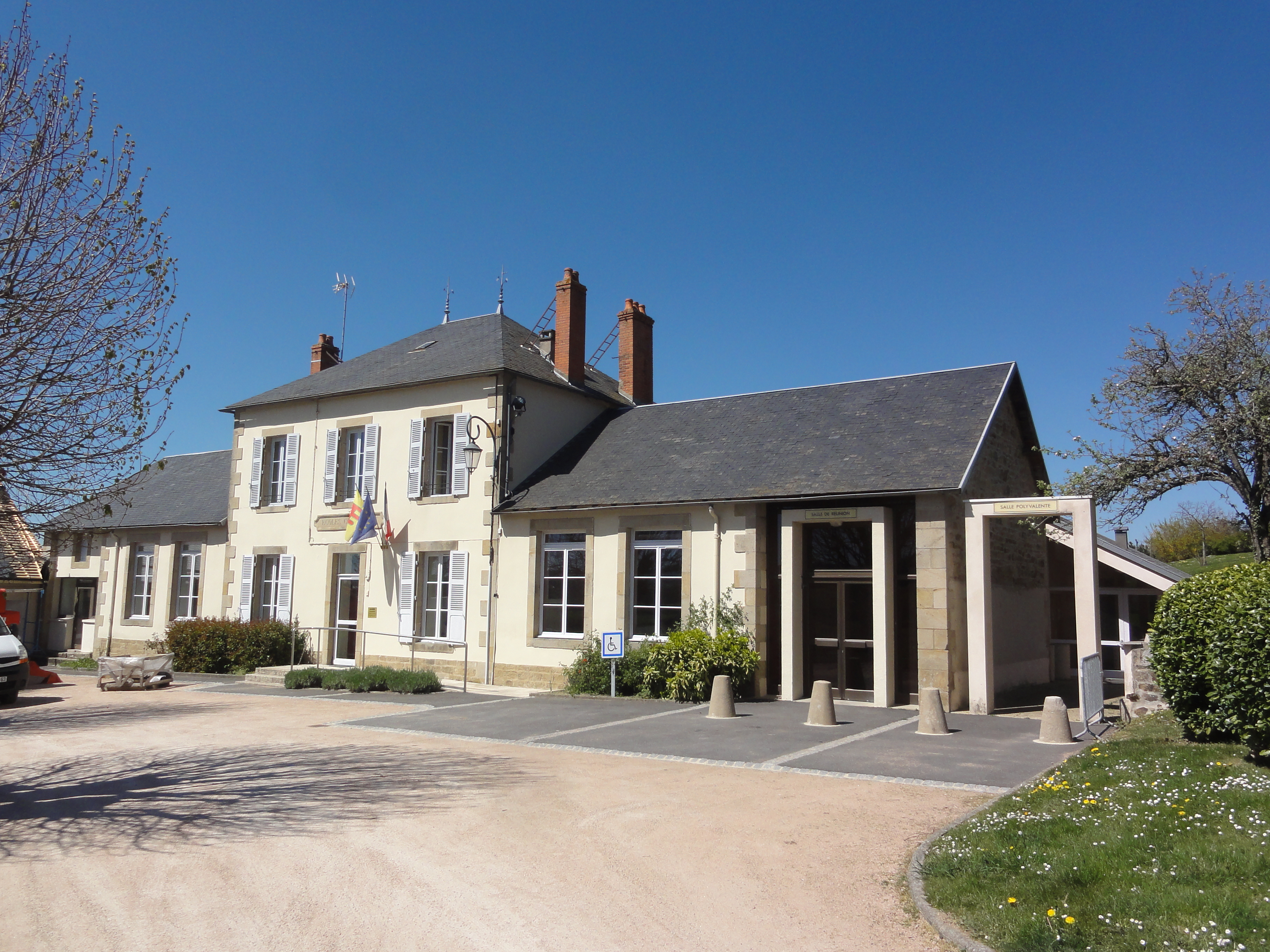 La Cellette (Puy-de-Dôme) écoles et mairie